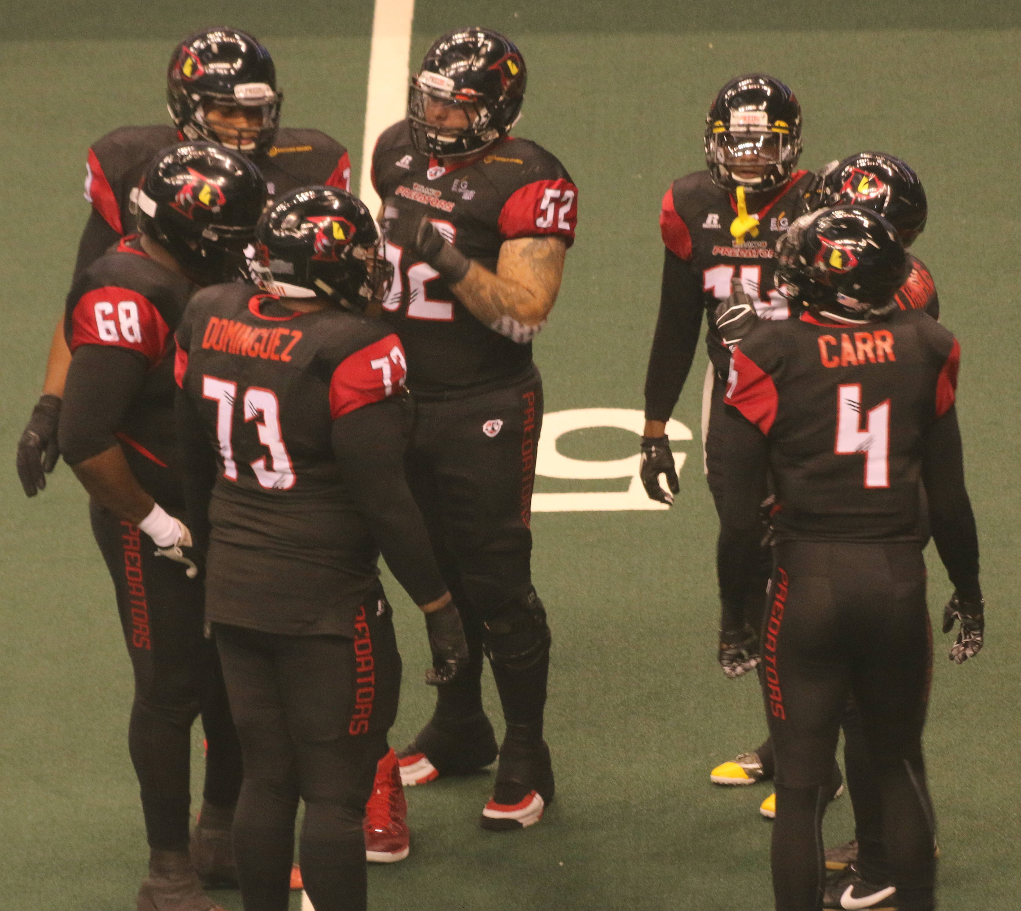 ORLANDO, Fla. – The Headquarters and Headquarters Company, 143d Sustainment Command (Expeditionary) Color Guard presented our nation’s colors to more than 11,000 screaming fans who waited to see the Orlando Predator take on the Los Angeles Kiss at the Amway Center here, Saturday, April 18, 2015. The Orlando Predators are a professional arena football team based in Orlando, Florida. The team is part of the South Division of the American Conference of the Arena Football League. “The 143d color guard did an outstanding job as usual,” said Mr. Adrian Robles, the community relations director for the Predators. "We always look forward to seeing them perform", he further added. Photos by Chief Warrant Officer 3 Desiree Felton